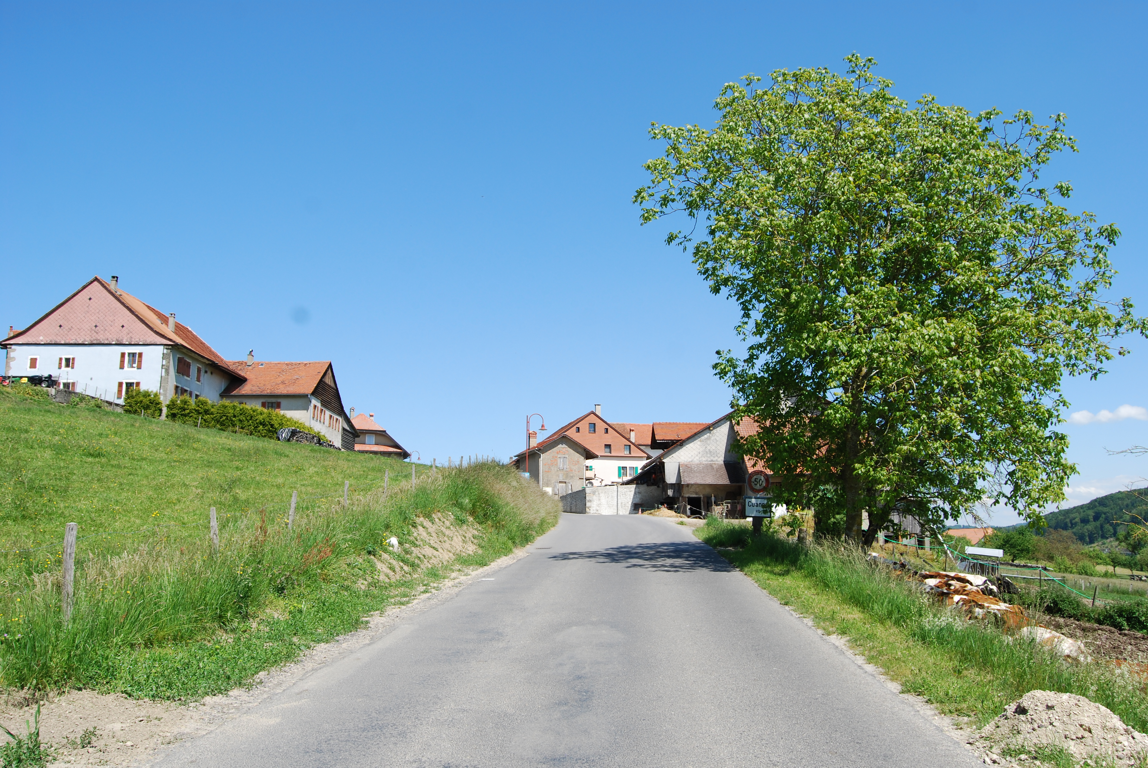 Cuarny, canton of Vaud, SwitzerlandEsperanto: Cuarny, Kantono Vaŭdo, Svislando